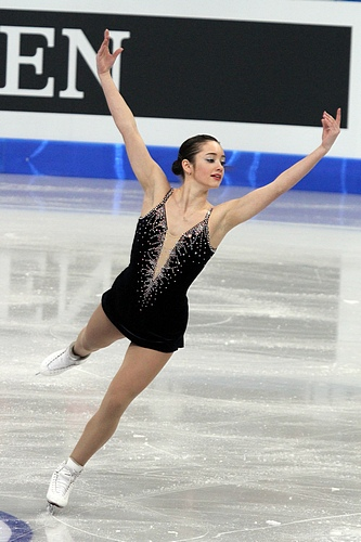 Kaetlyn Osmond at the Junior World Championships 2012